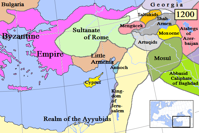 Map of Anatolia and some surrounding regions in AD 1200. (Partially based on Euratlas map of Europe, 1200.)